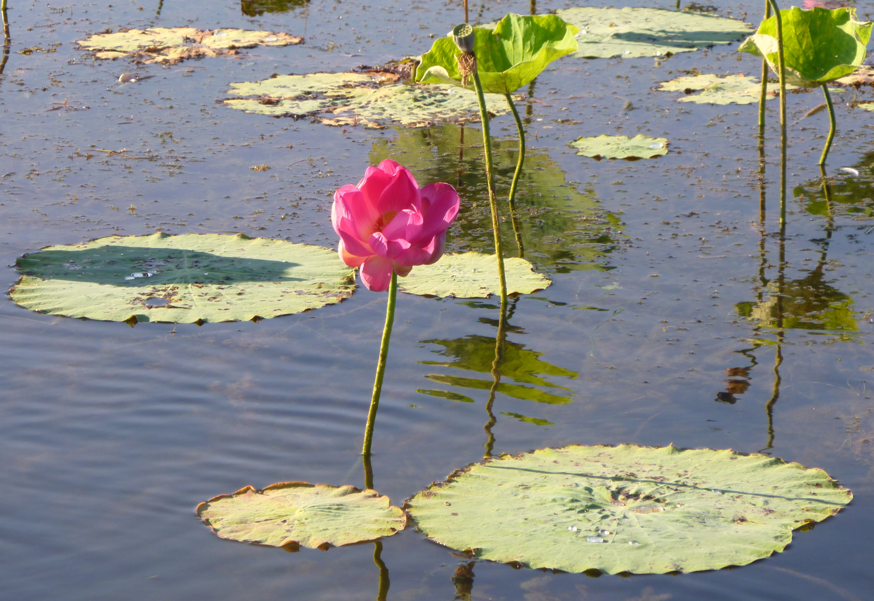 Lotus flowering at Yellow Water, Kakadu National Park